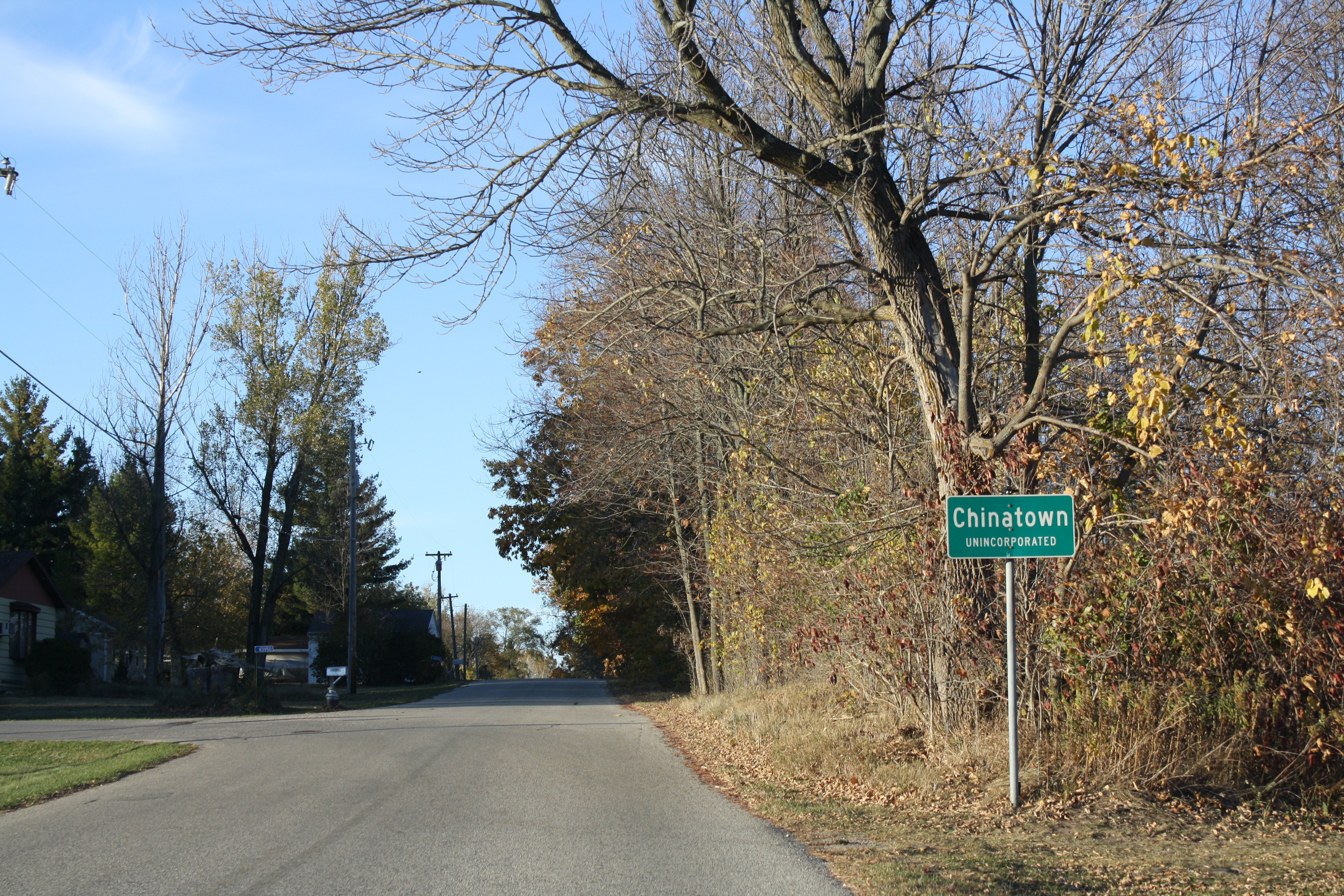 Looking north at the sign for Chinatown, Wisconsin.